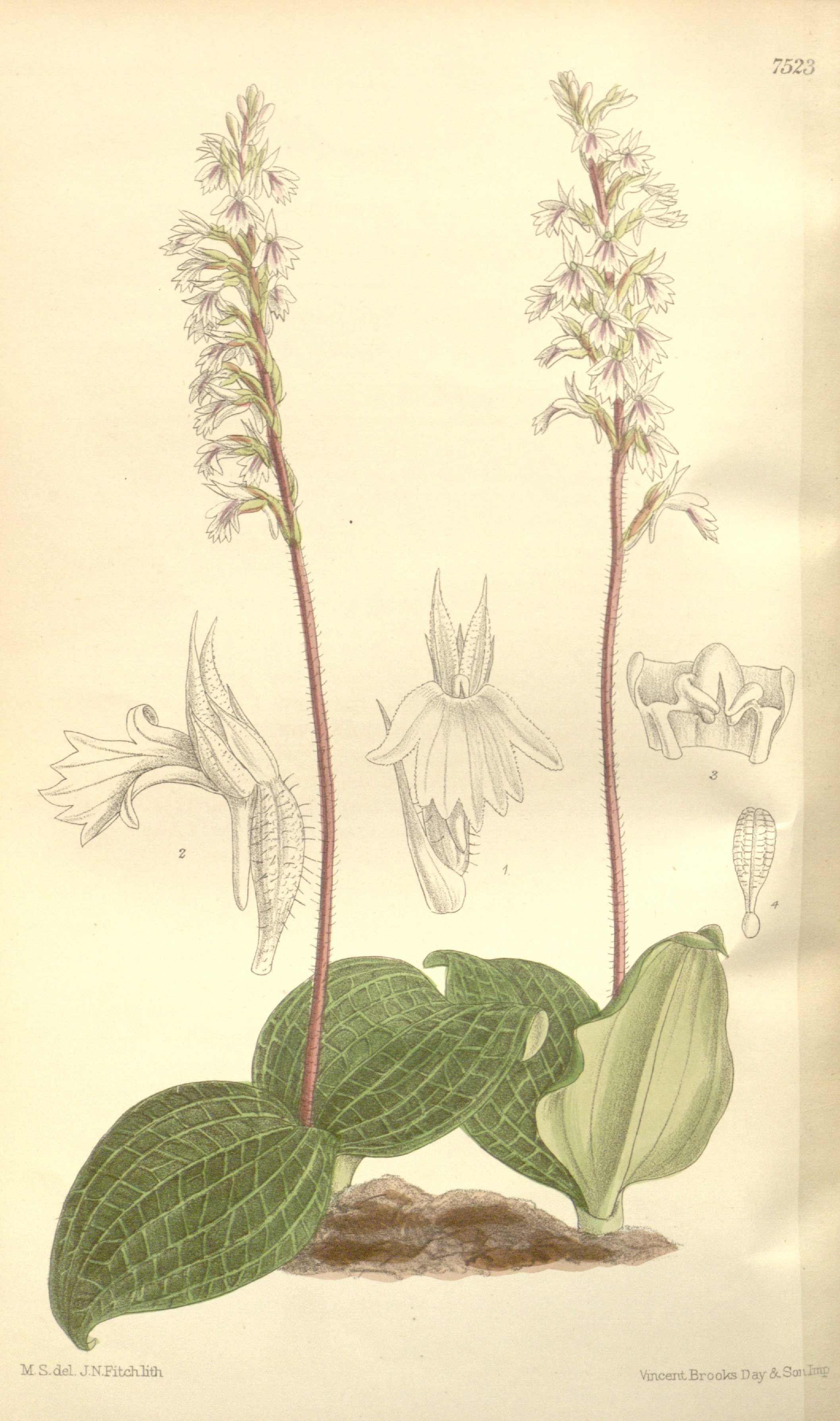 Illustration of Holothrix orthoceras